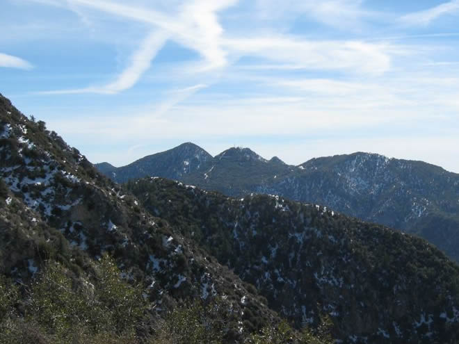 San Gabriel Peak is the highest point on the horizon, seen from Strawberry Peak to the north.